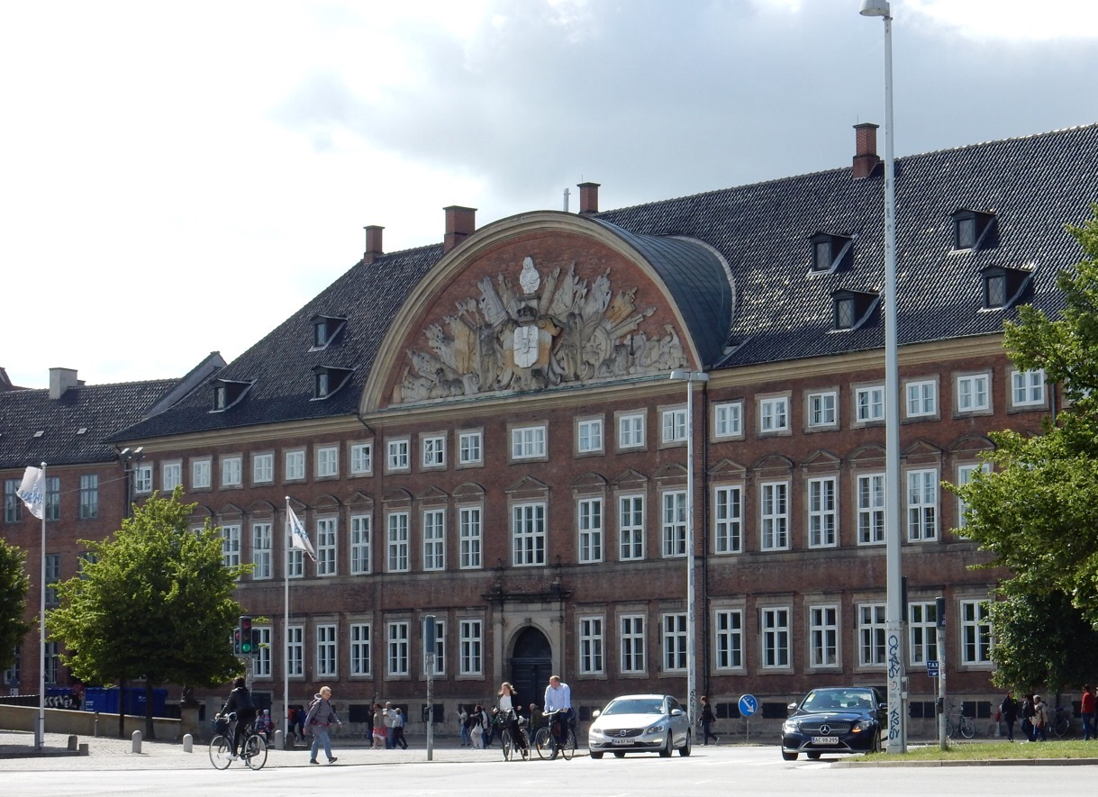 The Ministry of Financial Affairds on Slotsholmen in Copenhagen, Denmark